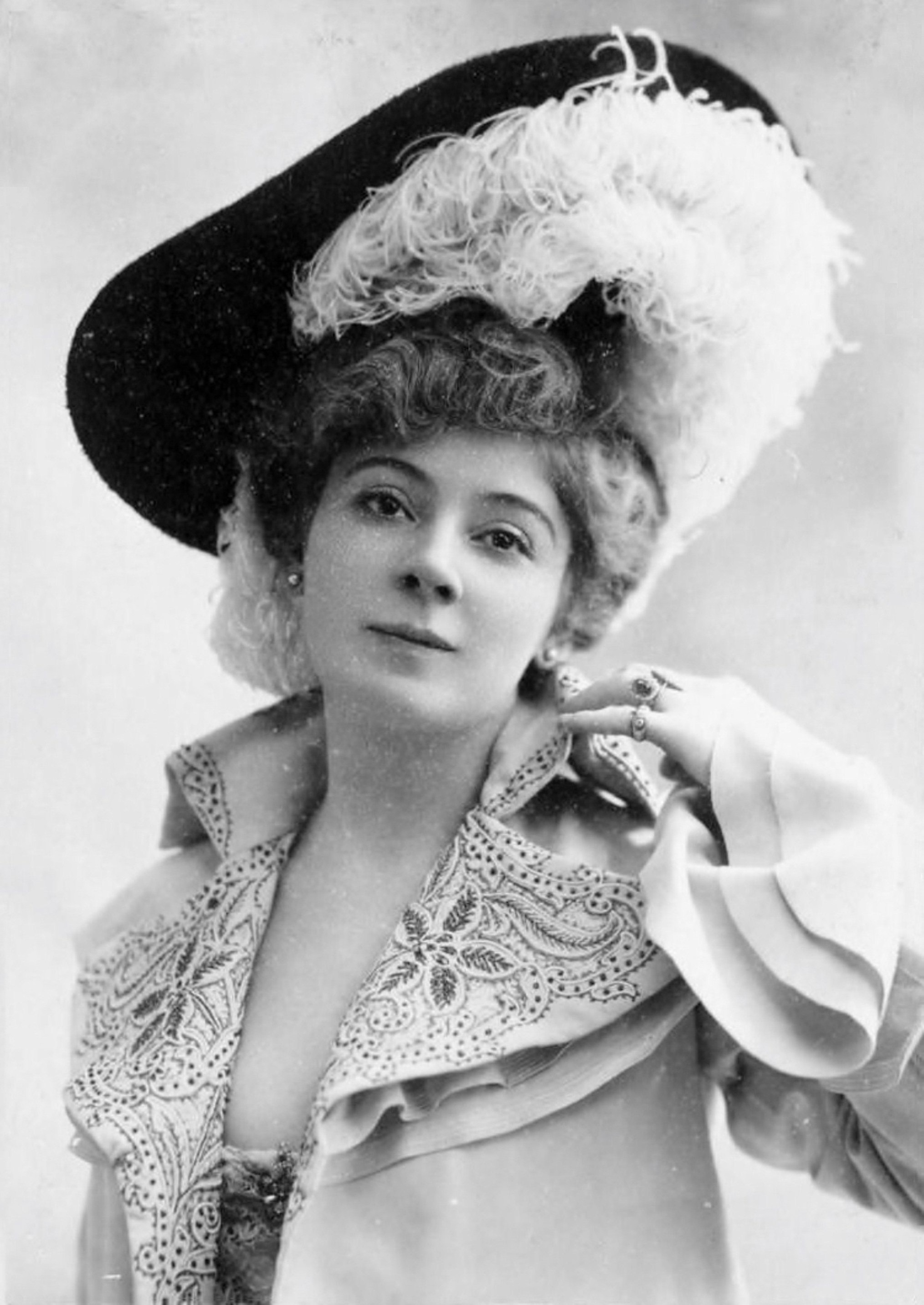 Amélie Diéterle is a French actress born in Strasbourg on February 20, 1871 and died in Cannes on January 20, 1941. She was legitimated in Paris in 1892 by Captain Louis Laurent, Knight of the Legion of Honor. Amélie Diéterle married in Vallauris on June 16th, 1930 with André Simon (1877-1965). Amélie Diéterle plays mainly at the Théâtre des Variétés in Paris during the Belle Époque.